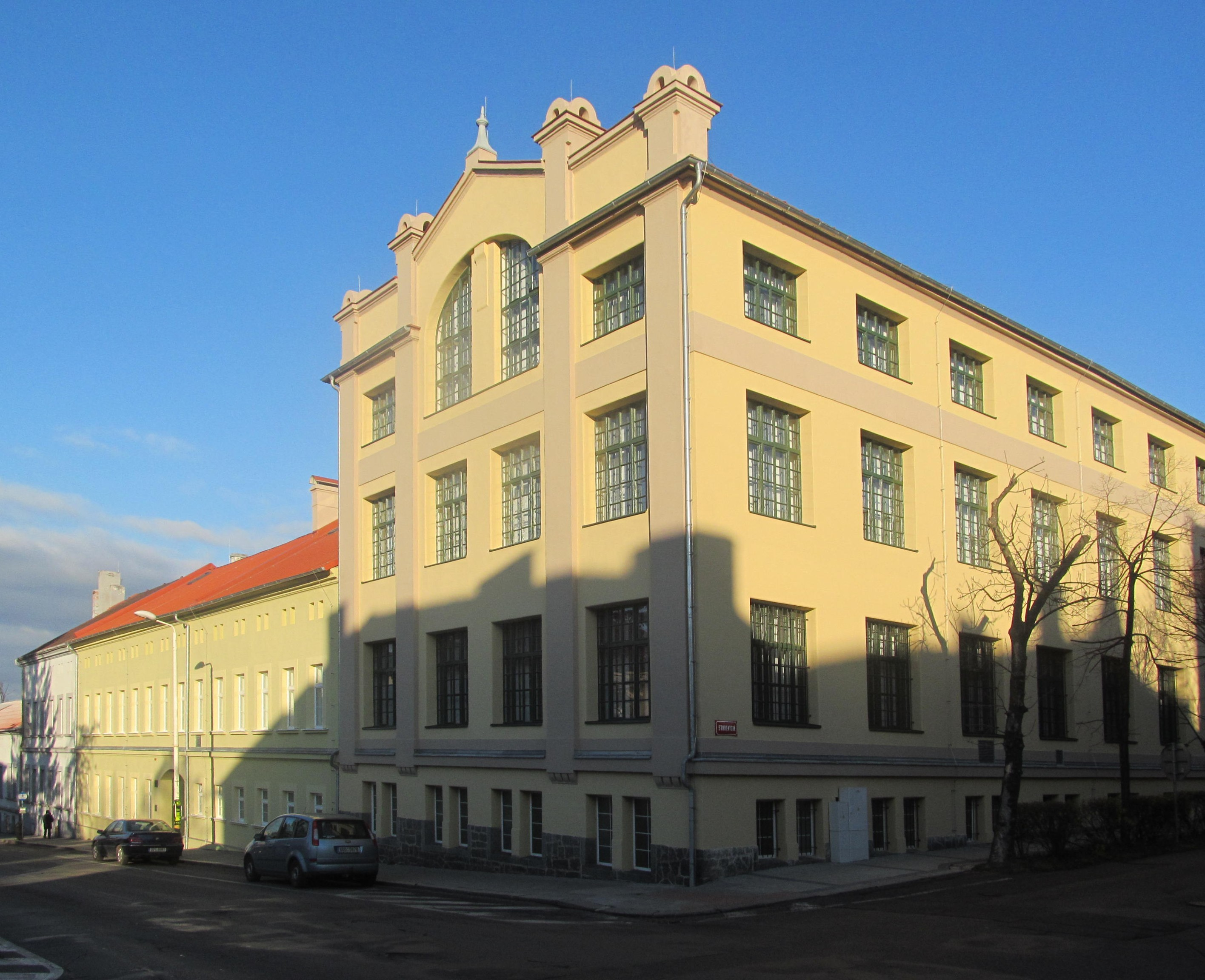 Depository building of the Municipal museum in Žatec